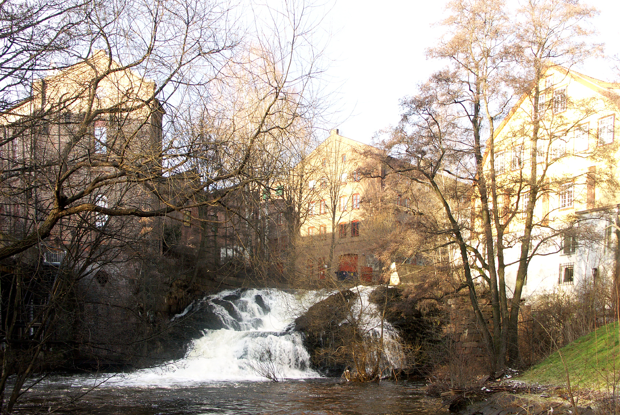 Hjulafossen in river Akerselva, Oslo.